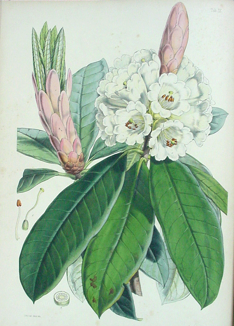 Rhododendron argenteum From the The Rhododendrons of the Sikkim-Himalaya, by Joseph Dalton Hooker and illustrated by Walter Hood Fitch